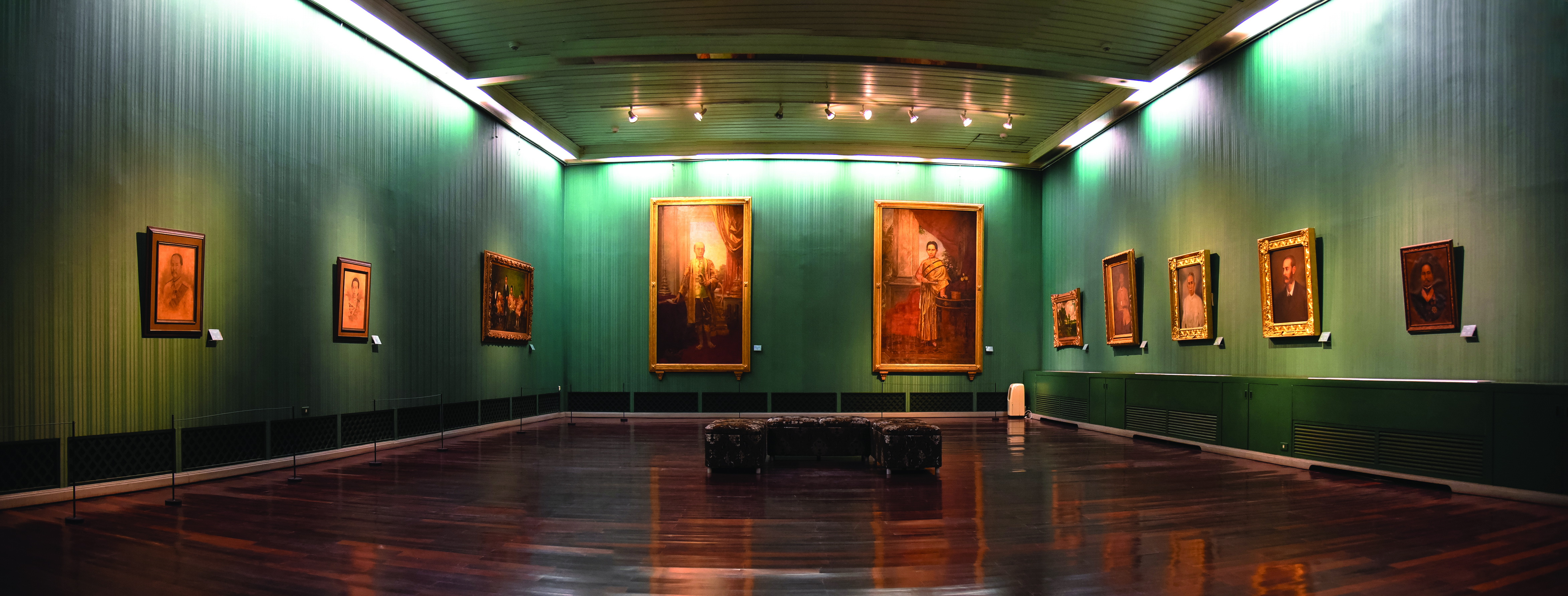 Located at 4, Chao Fa road, PhraNakorndistrict , the National Gallery is located in the area of the Front Palace (the residence of the Vice king) near the northern moat, now is the foot of PhraPinklao Bridge on Bangkok side. Initially, the Department of Fine Arts founded this museum so as to collect and exhibit works of arts, mainly visual arts, created by well-known Thai and foreign artists, and later to serve as a centre for researching and publicising knowledge about both traditional Thai and contemporary art. The museum was constructed on the grond of the former “Royal Thai Mint” during the reign of King Rama V, and designed by an Italian architect “Carlo Allegri”. This masonry structure features a triangular roof with the prominent front arch adorned with a bas-relief stucco work displaying a national emblem used during the reign of King Rama V. The arch itself was also encircled by crafted flora patterns. The museum with an open lawn at the centre is a long single-storey building which turns in a right angle to intersect one another in a square shape so visitors can walk through. On 22nd August, 1978, the Department of Fine Arts registered this place as a National Historic Site.